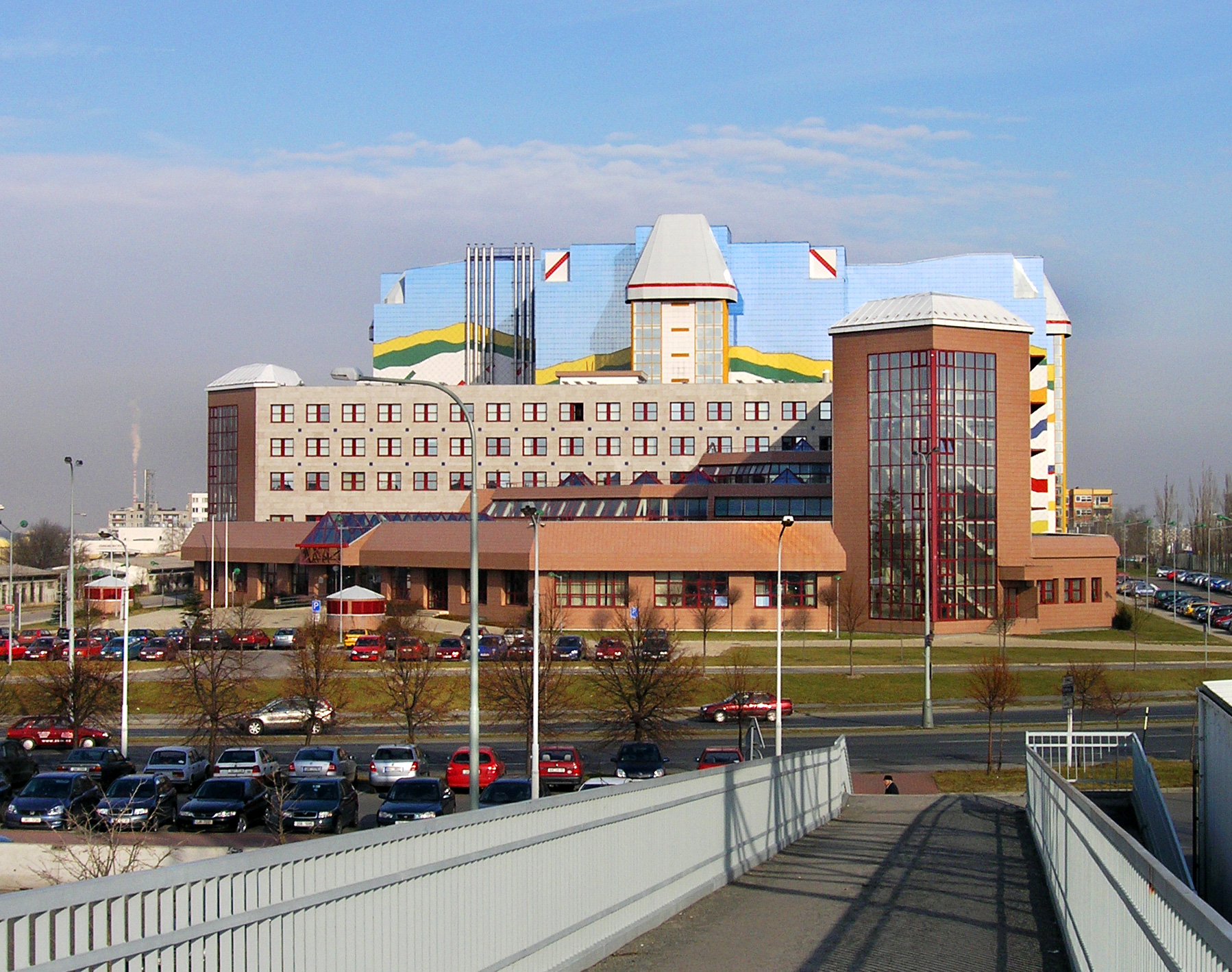 National Archives in Chodov, Prague 11